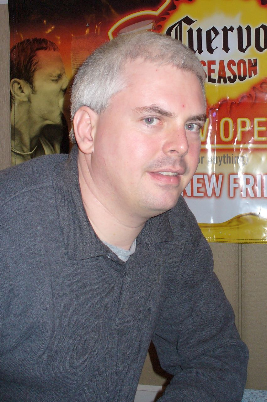 Of Crooked Timber and other institutions.